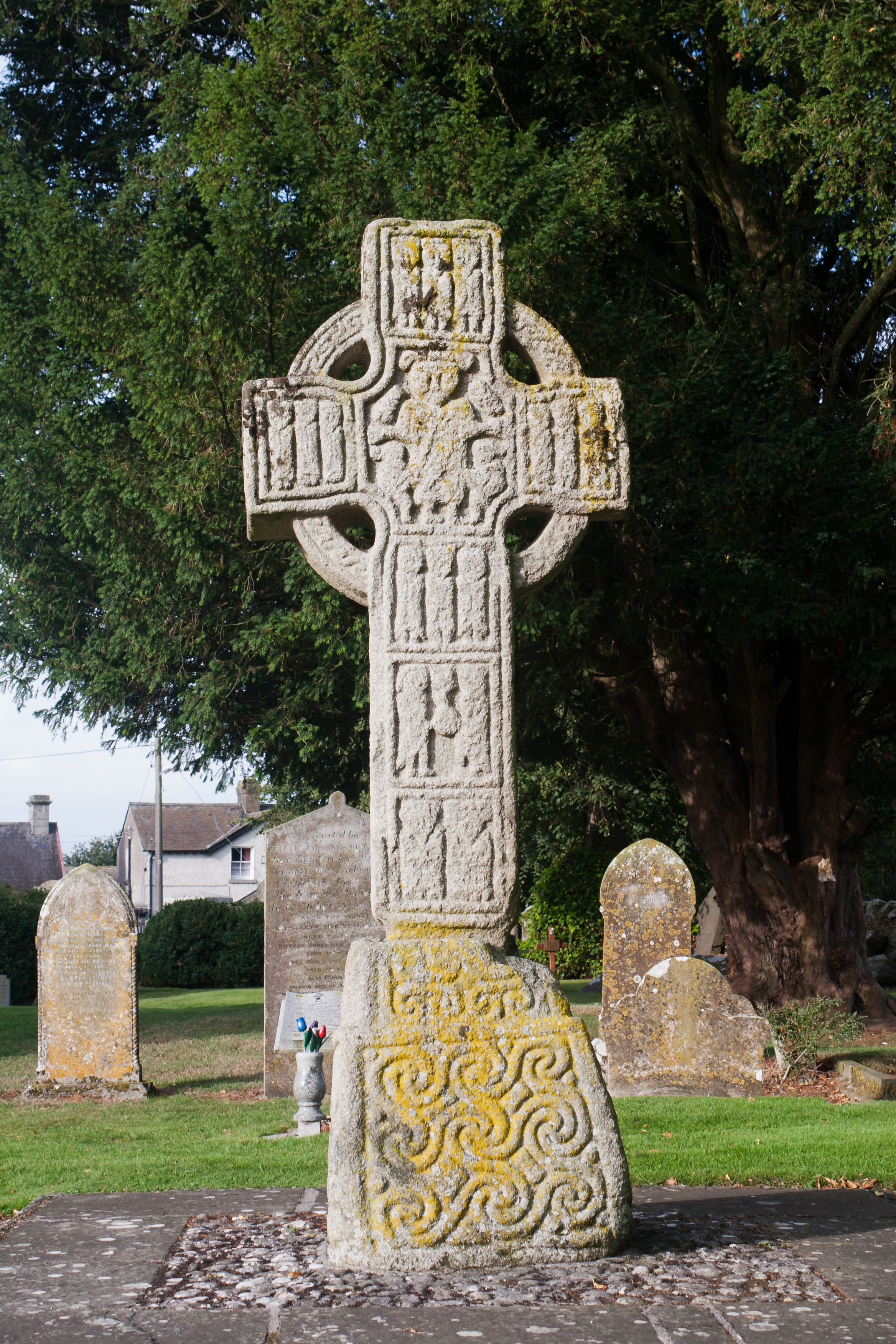 East face of the North Cross, depicting the Crucifixion in the centre, the twelve apostles surrounding it, a depiction how a raven brings bread to the desert hermits Paul and Anthony in the centre of the shaft, two unidentified figures below, and a spiral pattern at its base.